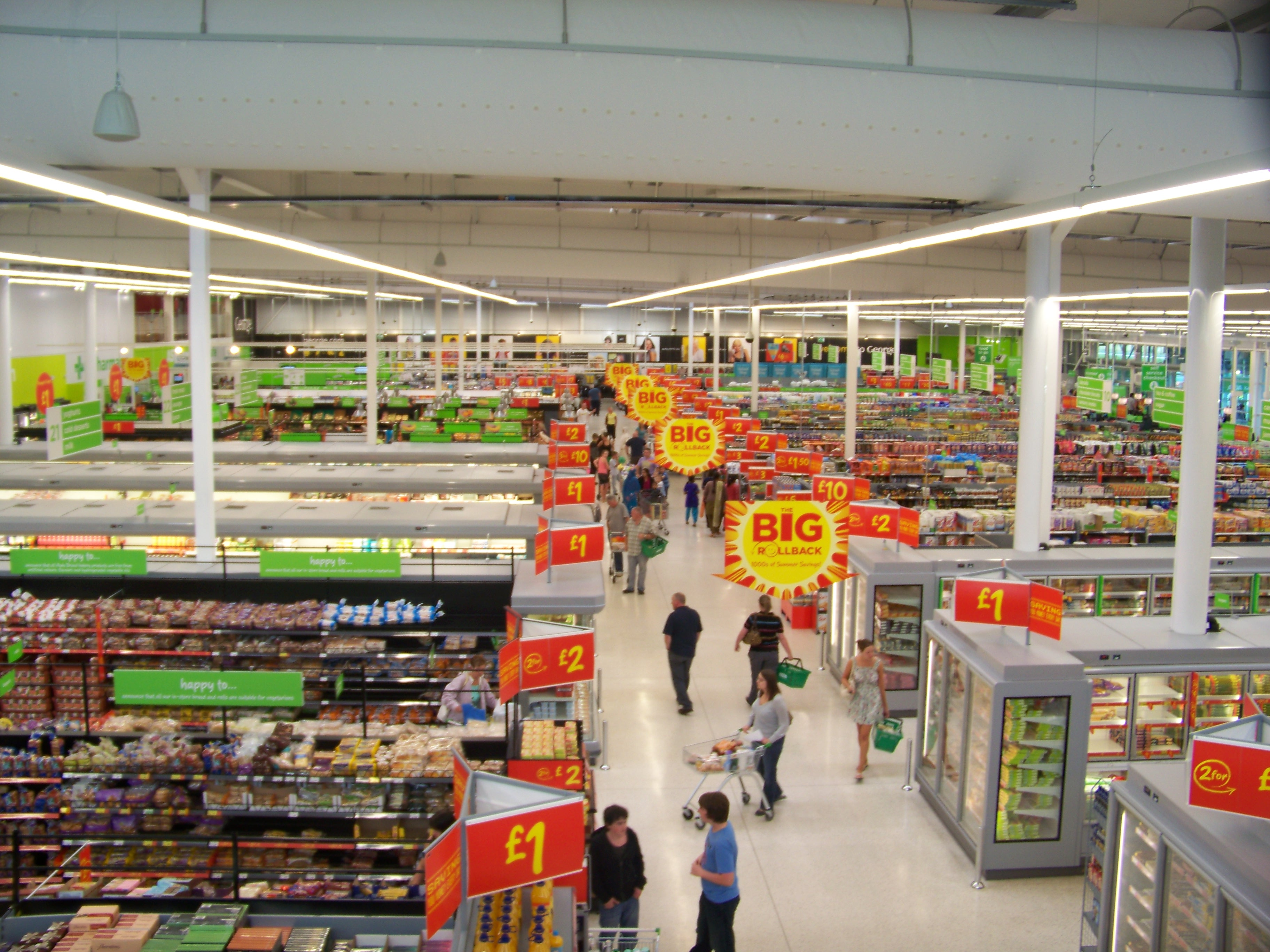 The interior of ASDA in Keighley, West Yorkshire, taken from the walkway facilitating street level access to the shop. The branch opened in 2009 complementing Keighley's existing Morrison's and Sainsbury's supermarkets. Taken on the afternoon of Saturday the 22nd of August 2009.